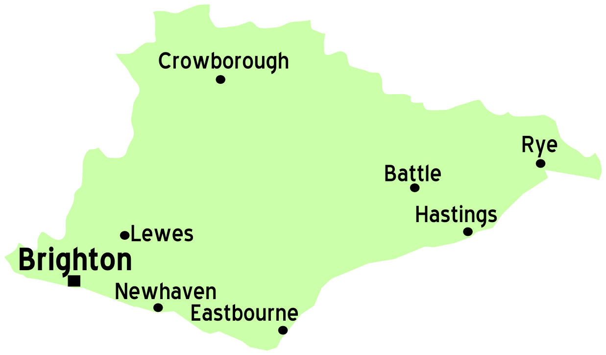 Map of East Sussex Source: :Image:UK map.svg map: England Map of: England